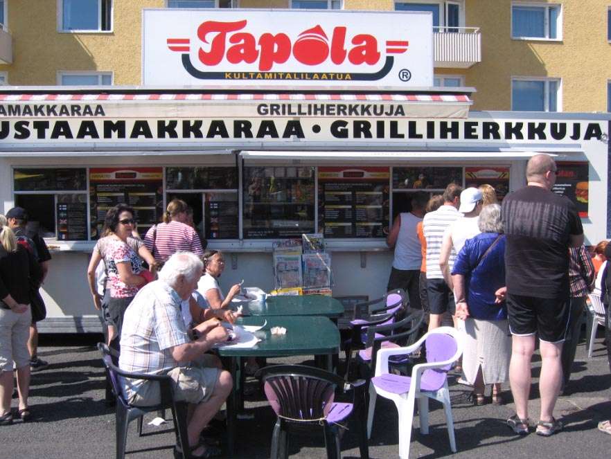 Tammelantori market place, Tampere